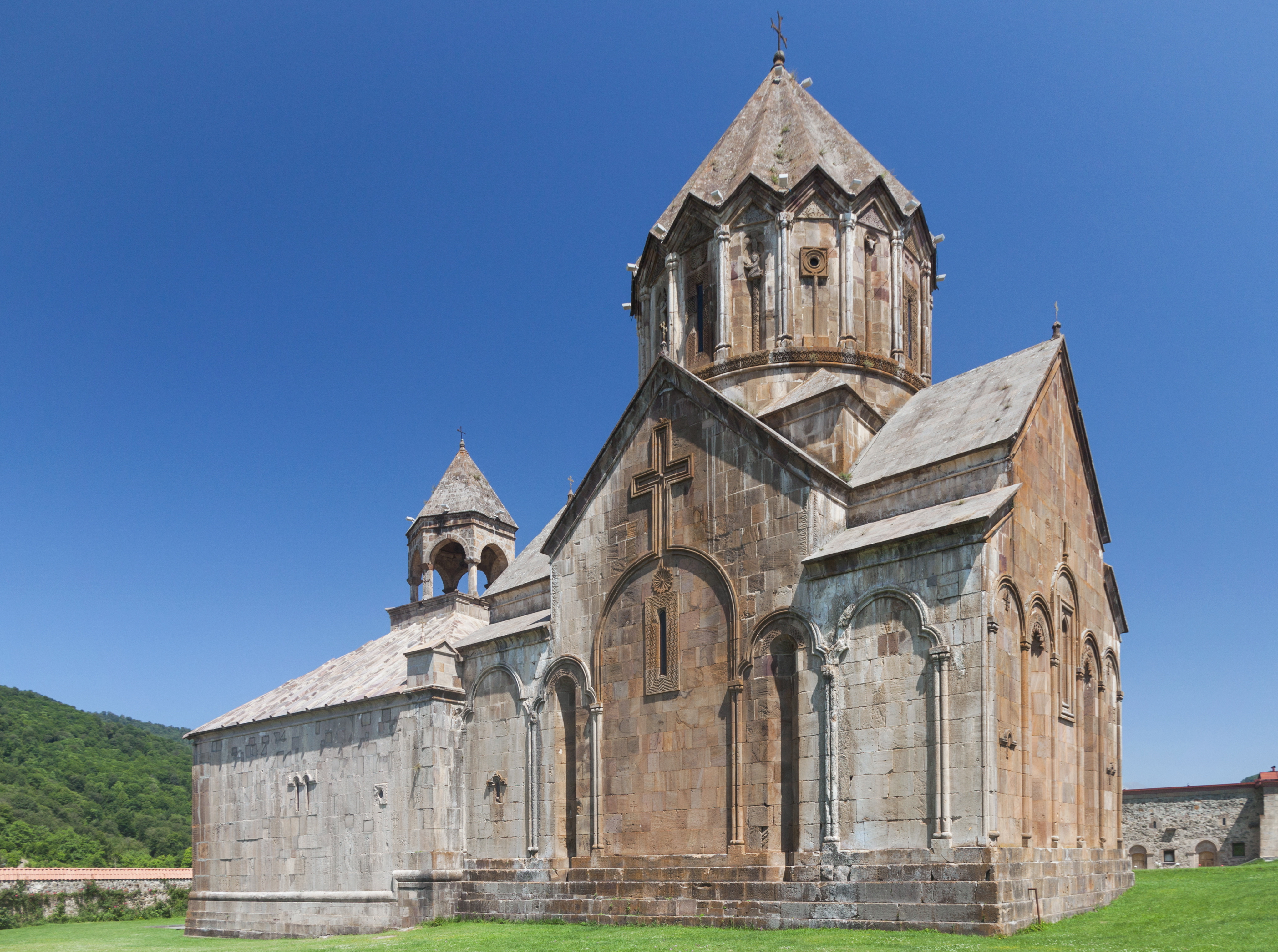 Saint John the Baptist church. Gandzasar monastery. Nagorno-Karabakh.